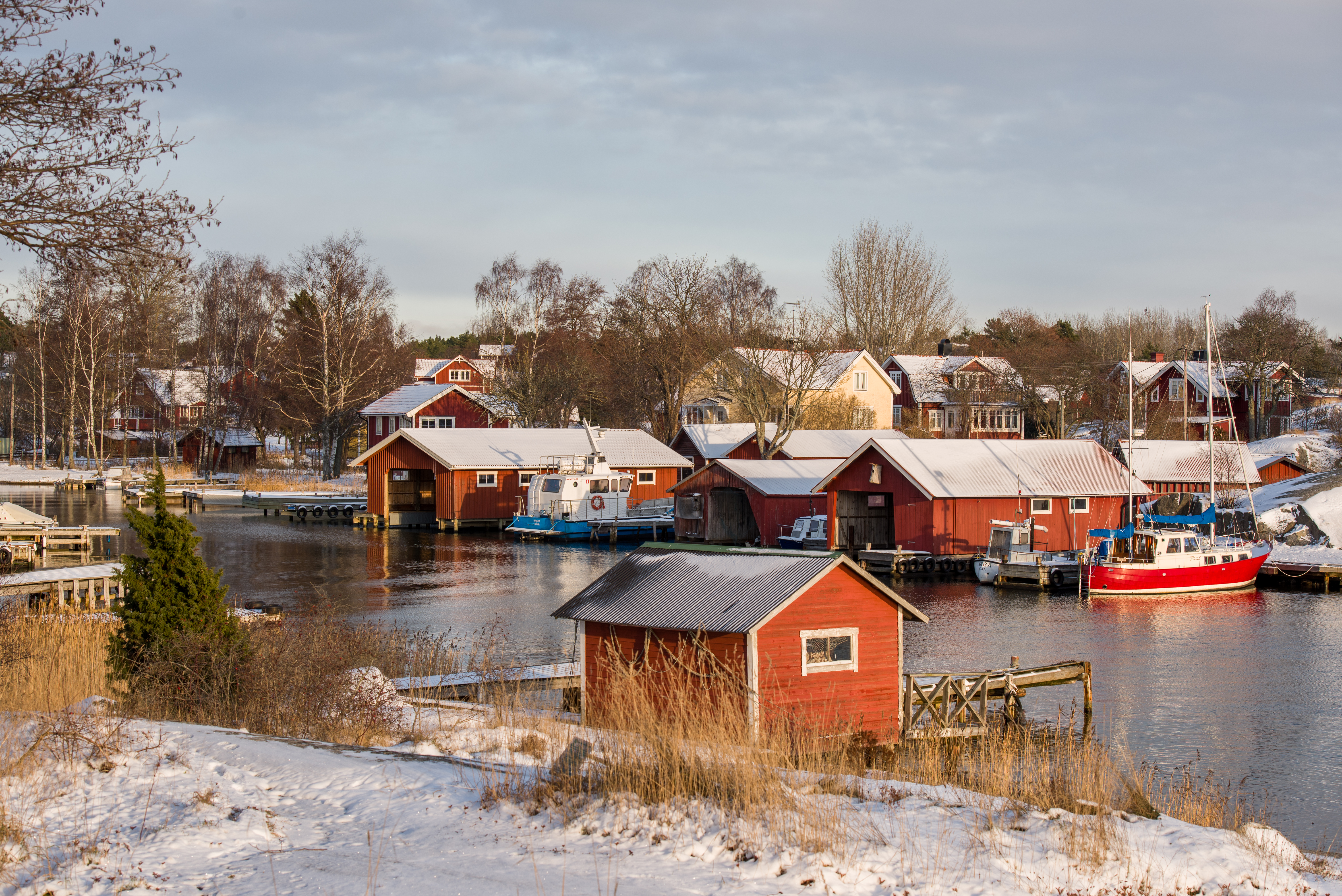 Small habour in Berg, a village at Möja island, Stockholm archipelago.